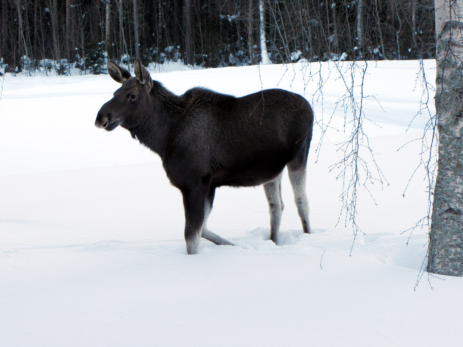 A moose in the wild outside of Örnsköldsvik, Sweden.